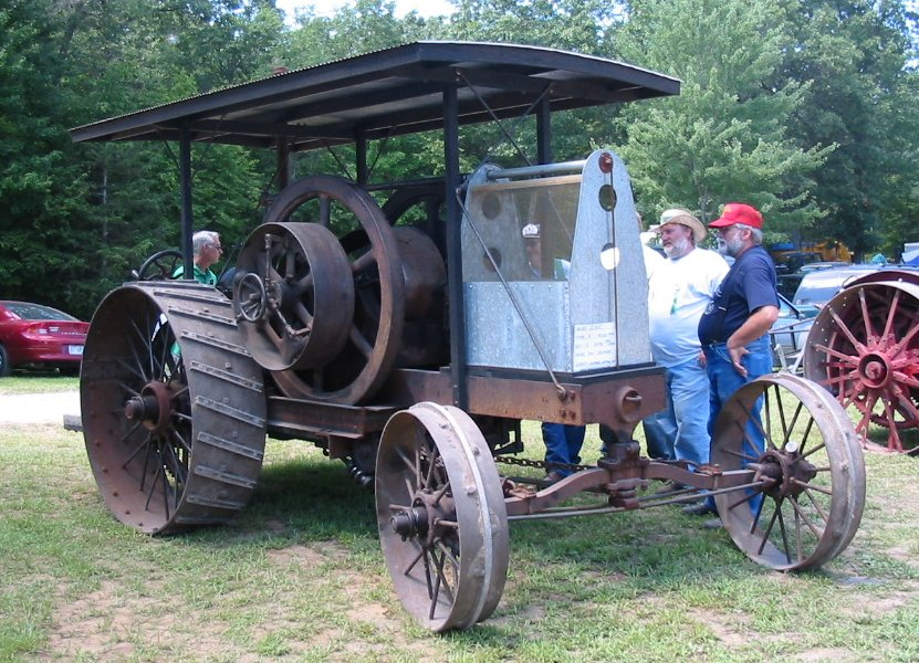 An early International Harvester tractor from 1920, on display at the Badger Steam and Gas Engine Club annual tractor show.